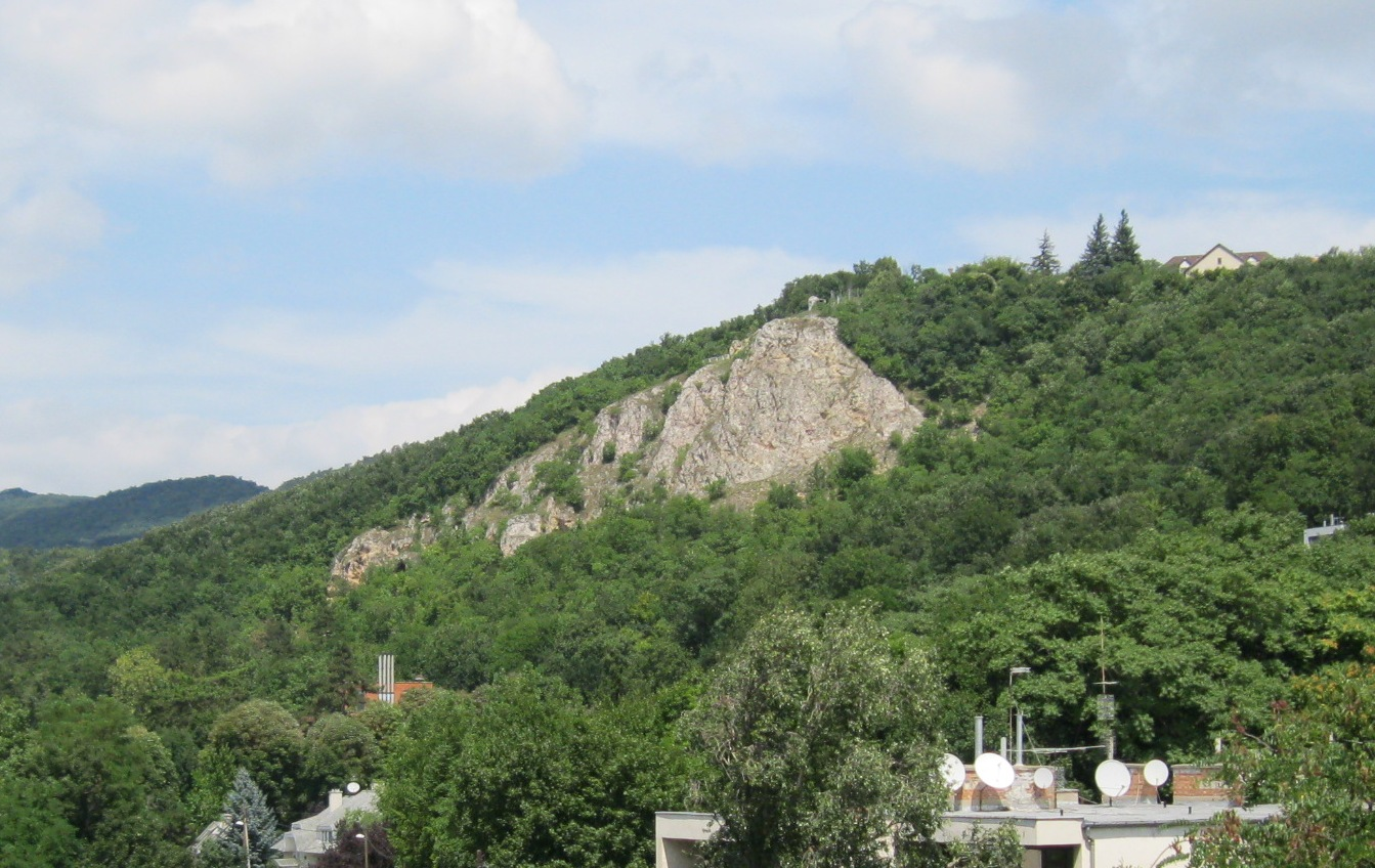 Apáthy Rock in Budapest District II.